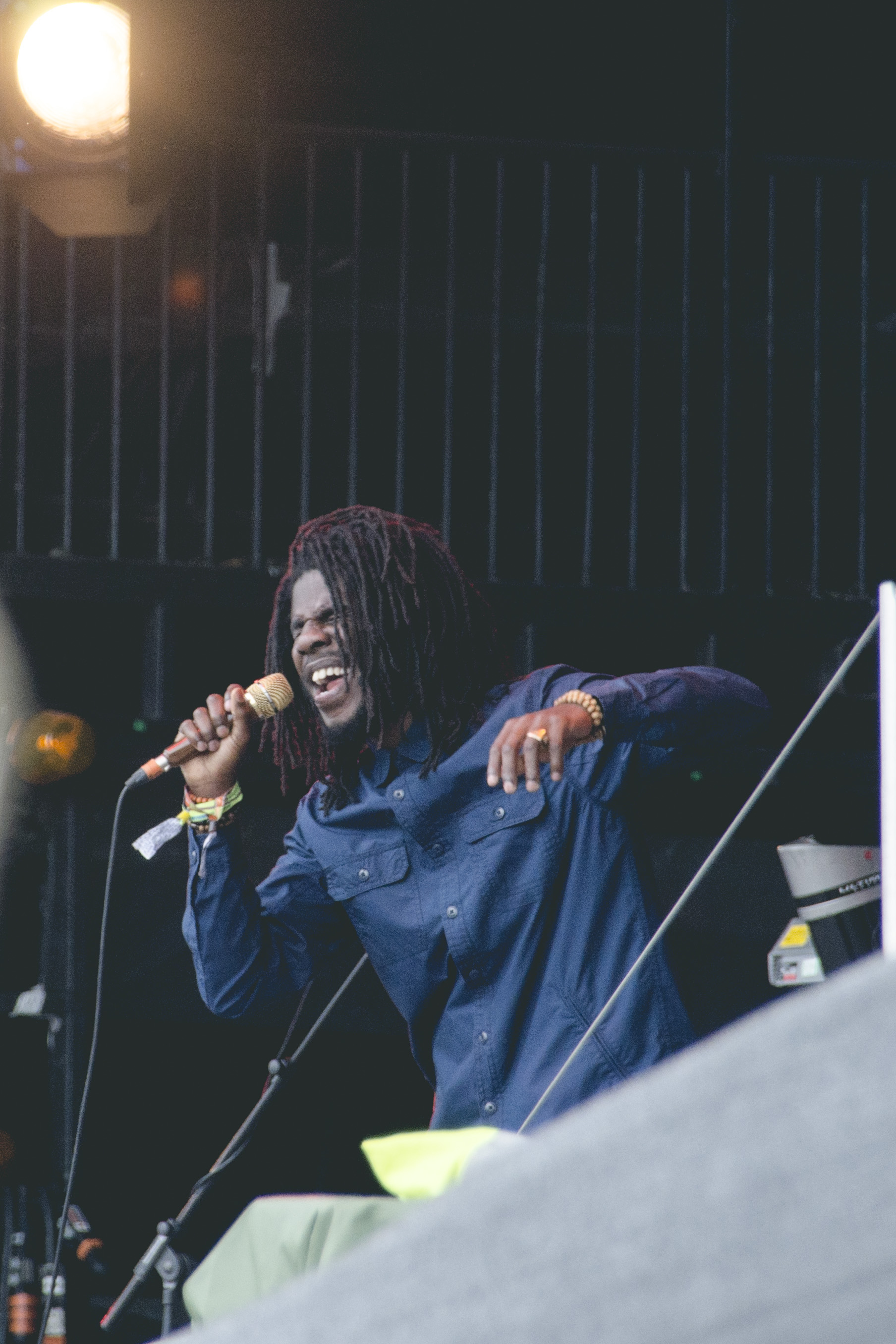 Chronixx on the Pyramid Stage at the Glastonbury Festival of Performing Arts 2015